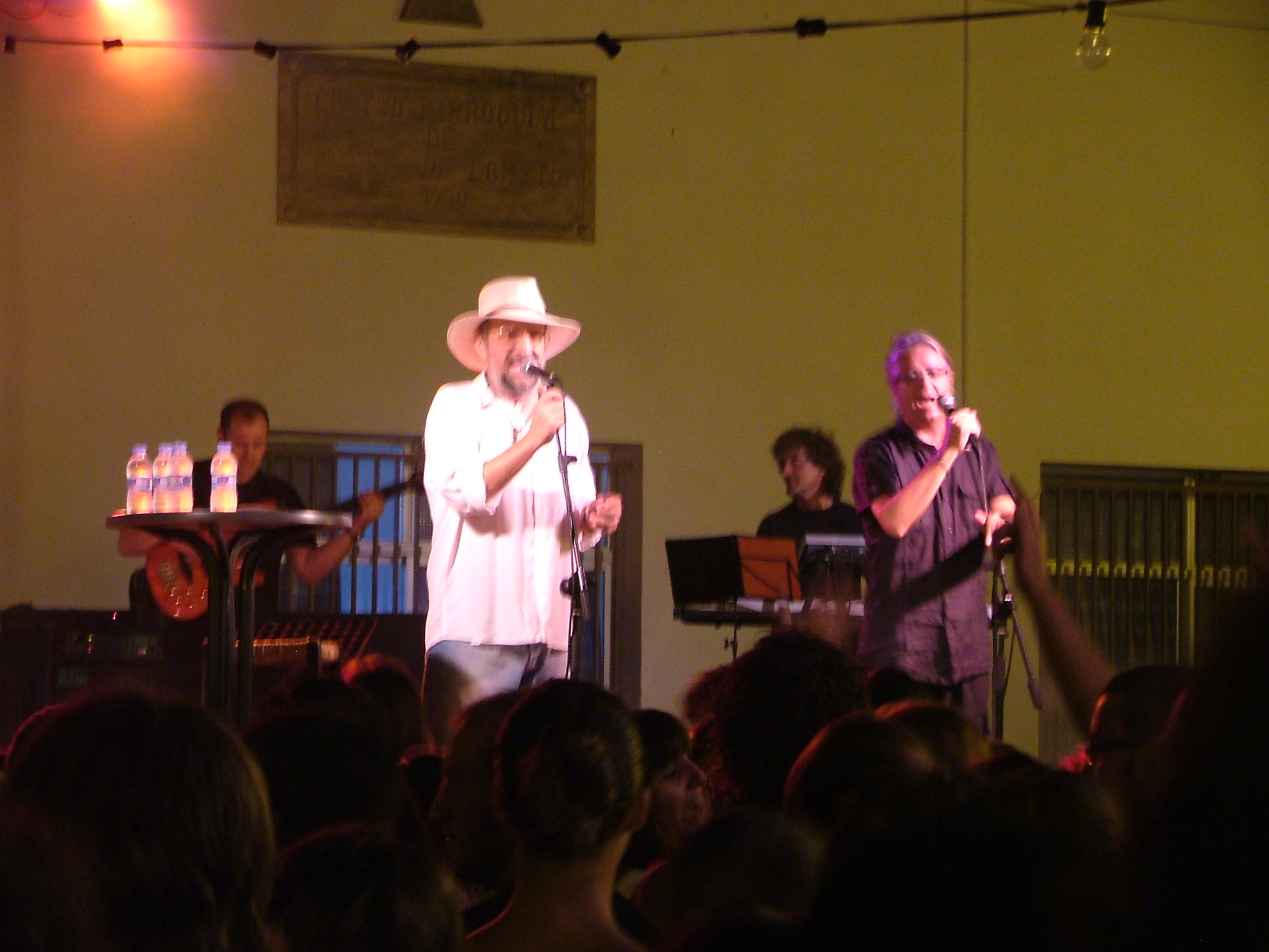 Tomeu Penya's concert in Lloret de vista alegre, Mallorca, Spain